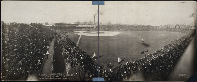 Accession No.: 06_06_000122 Title: 1906 World Series game at West Side Park in Chicago Caption: Fifth Game, World's Championship Series, Cubs vs. White Sox, National League Grounds, Saturday October 13th 1906. Creator: Lawrence, George R. Date: 1906 Format: photograph Description: Panoramic Photo, in two sections, of the West Side Grounds during game five of the World Series. The Chicago White Sox won the game 8-6 to take a 3 to 2 lead in the series. BPL Collection: McGreevey Collection BPL Department: Print Subject: Baseball--History Panoramic views Athletic fields World Series (Baseball) (1906) Sports spectators